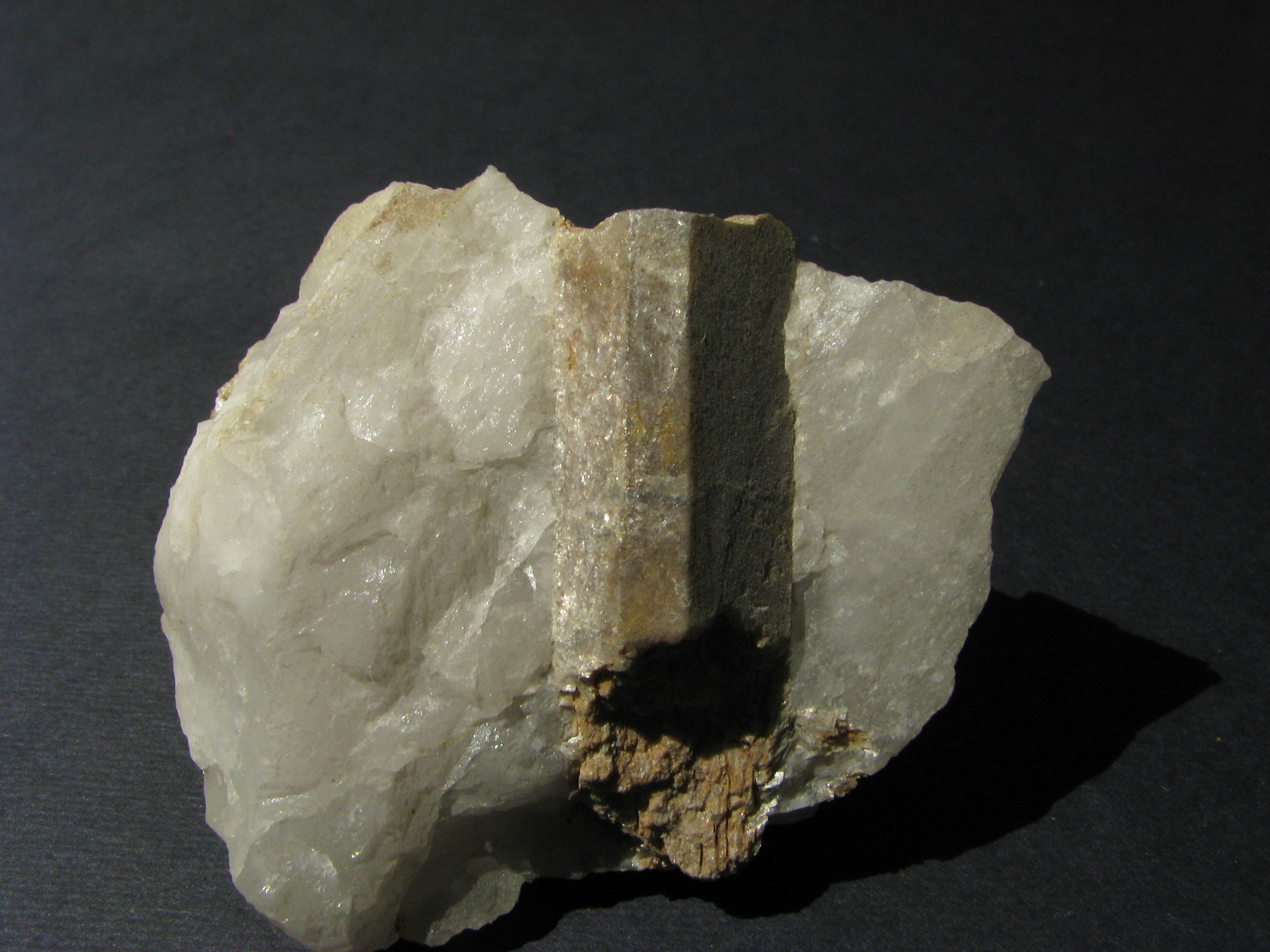 Andalusite crystals (6 cm), externally altered into sericite - P.so del Lucomagno, Switzerland